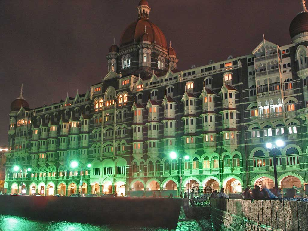 Taj Mahal Palace & Tower Hotel in the night, as seen from the Gateway of India, Mumbai.